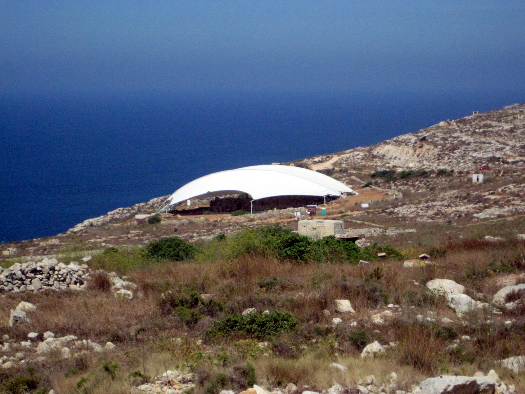 New protective tent over Mnajdra Temple, Malta.